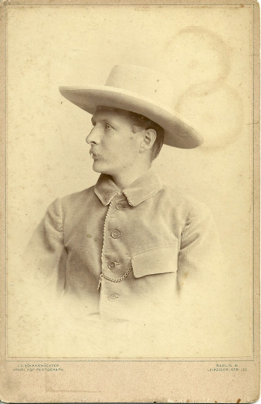 Working in South AfricaComment: Is this very probably Theodor Christoph Heinrich Rehbock (12 April 1864, Amsterdam – 17 August 1950, Baden-Baden)